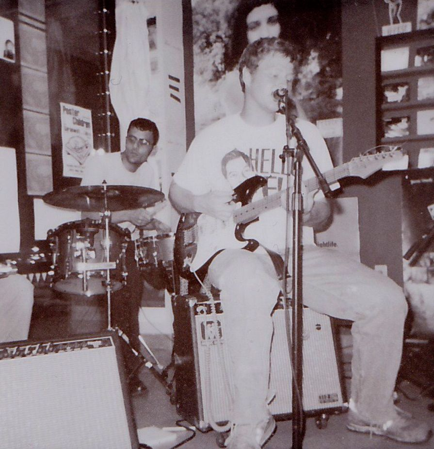 Masters of the Hemisphere performing live, in store, at Luna Music, in Indianapolis, Indiana in the early 2000s. This photograph was taken on a Polaroid camera.